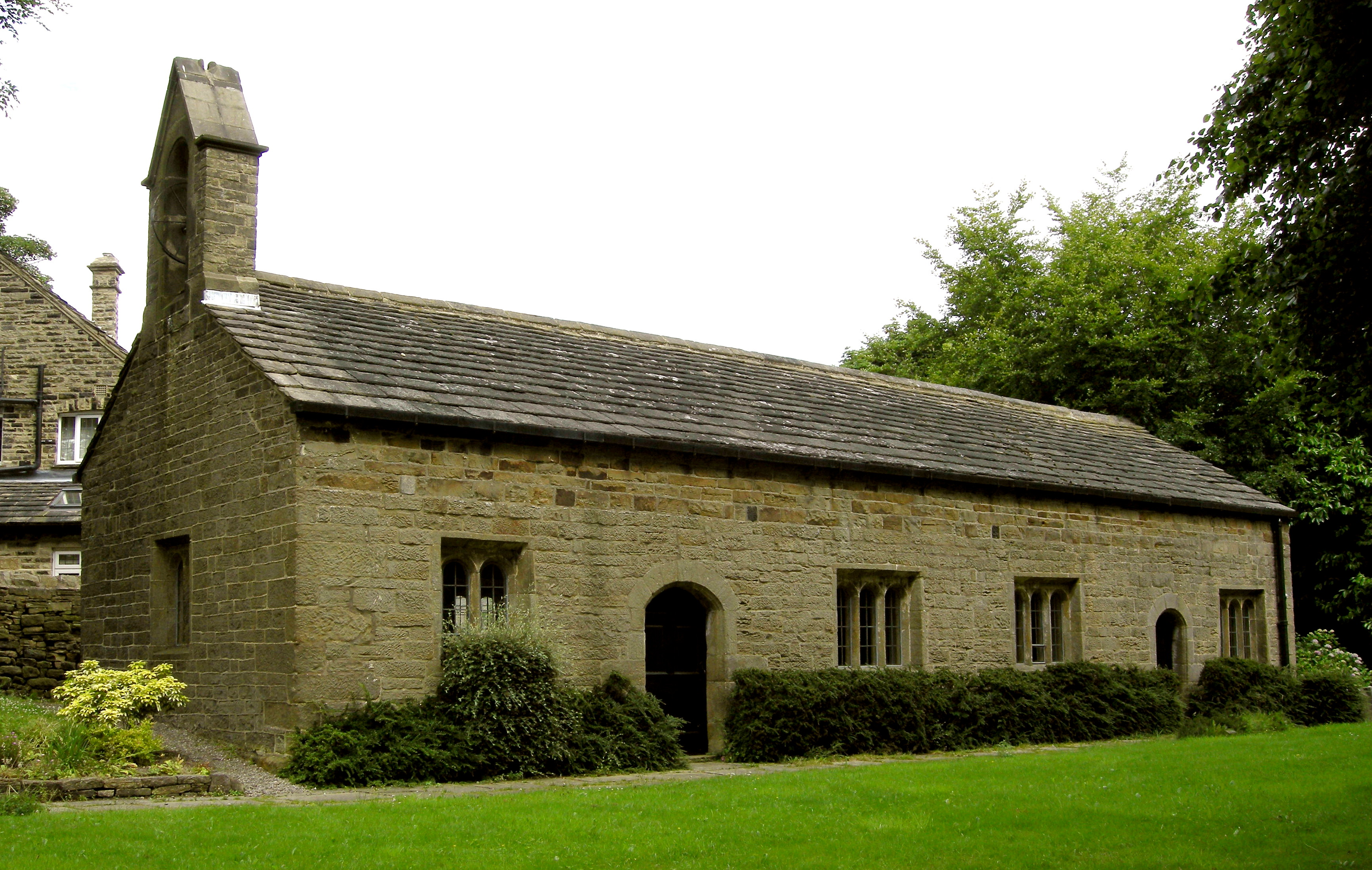 Bramhope Puritan Chapel 1649, West Yorkshire, England. Grade I listed building. 53 53'23"N. 1 36'45"W.